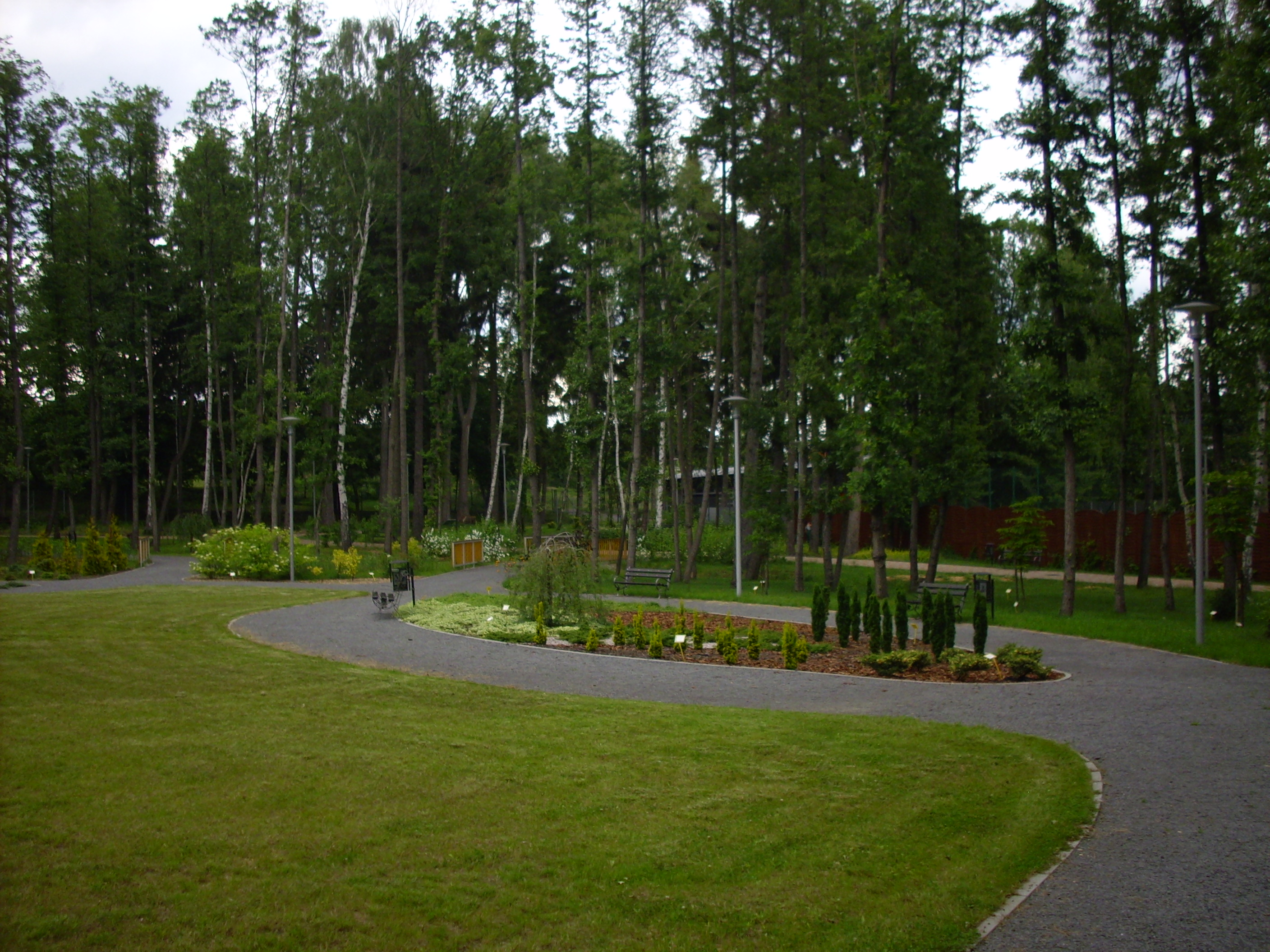 Path in Botanic Garden.